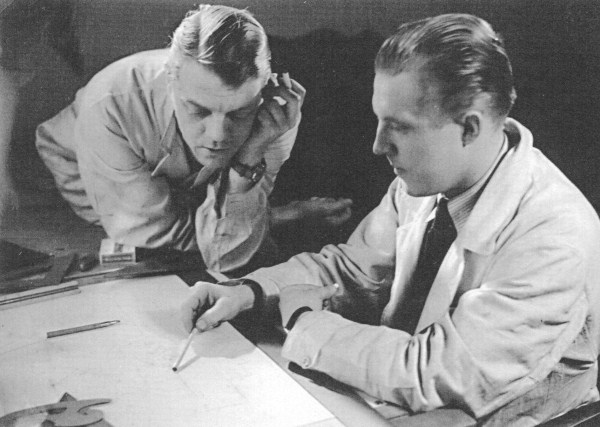 Valentin Vaala and Erkki Siitonen examing interior plans of the film "Morsian yllättää".